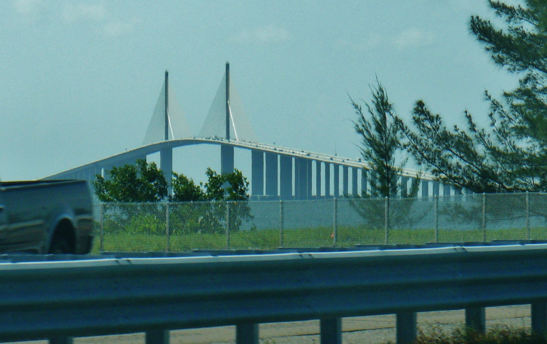 Bridge Interstate 275 - Sunshine Skyway Bridge - over Tampa Bay